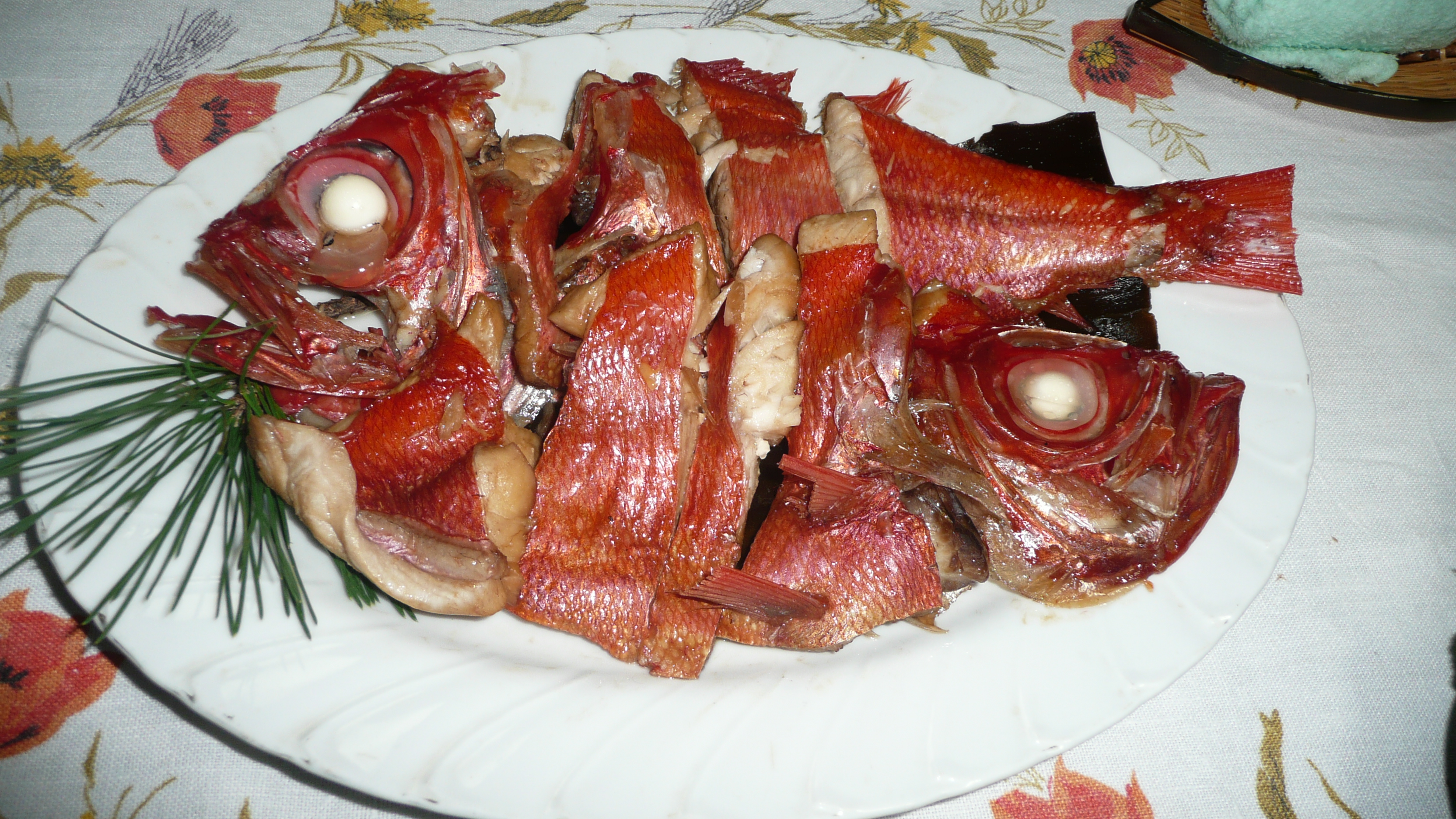 boiled Gold eye big fish, Hamamatsu, Japan